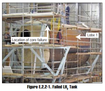 X-33 Liquid Hydrogen Multi-Lobed Tank Failure. One of the few images available of the full size tank, with a human in the picture providing a sense of scale.